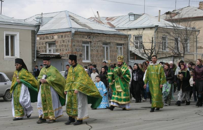 Palm Sunday procession in Tshkinvali in April, 2009.